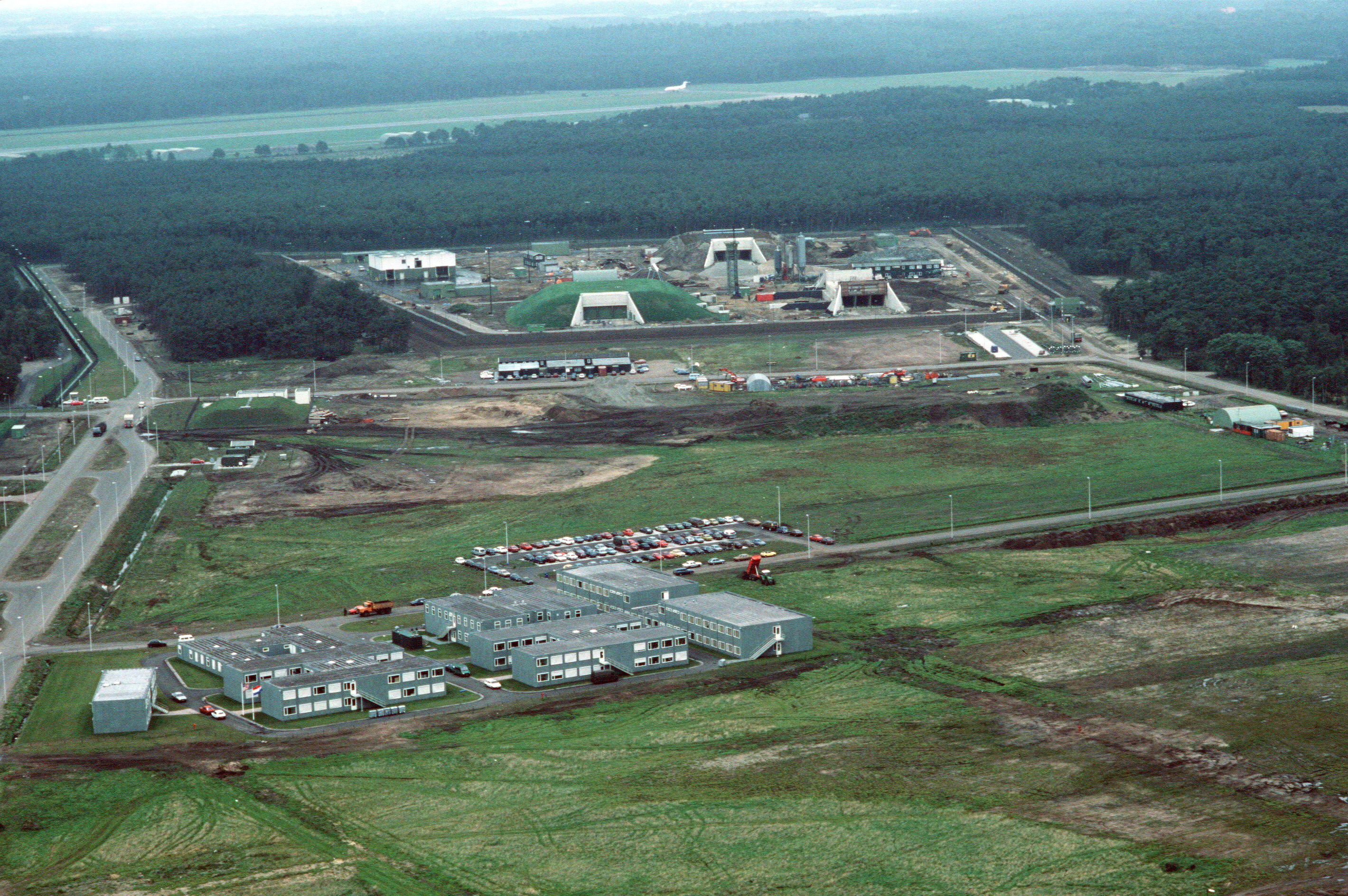 An aerial view of the ground launched cruise missile base at Wuensdrecht Air Station, home the 487th Tactical Missile Wing.